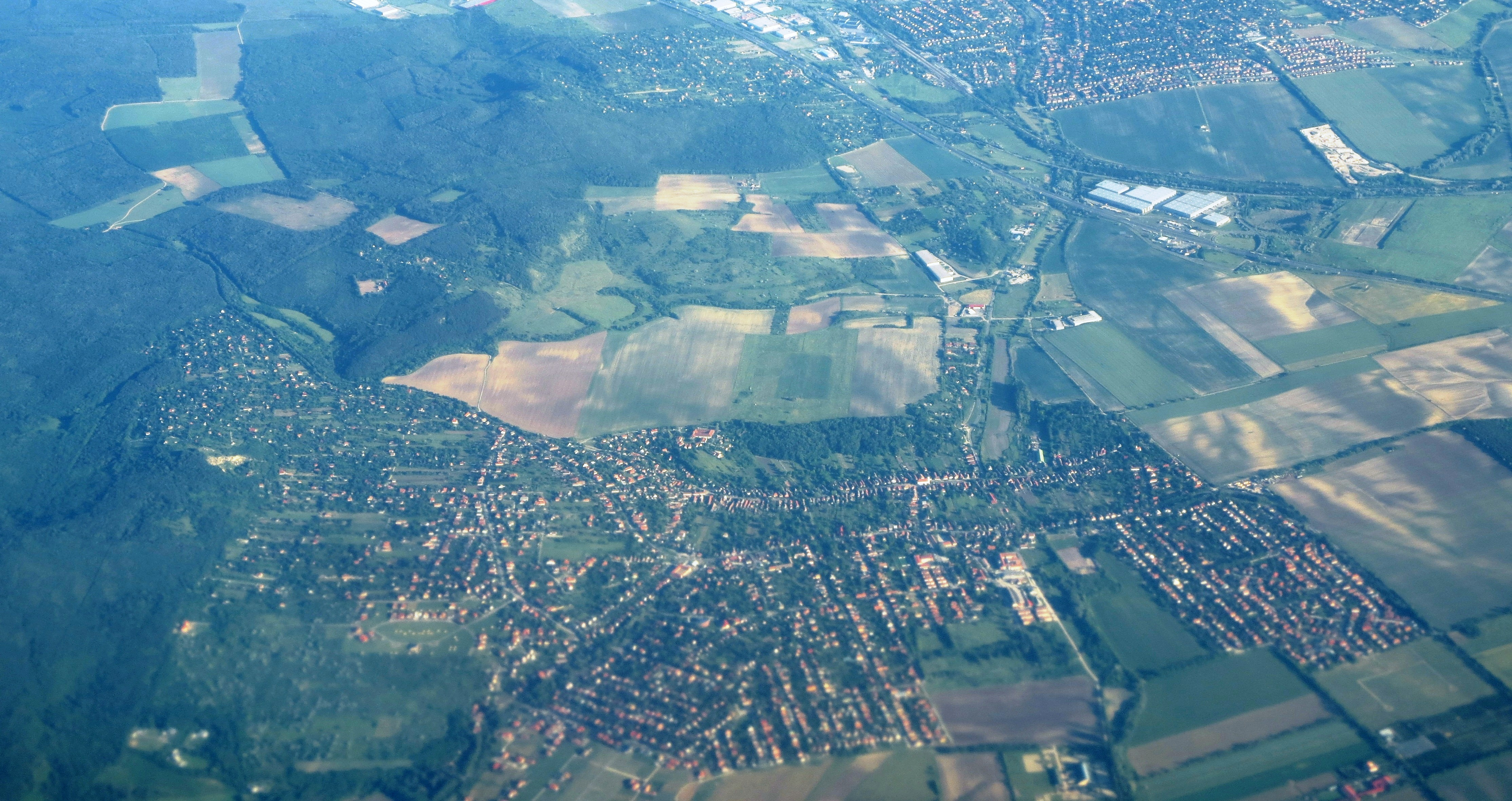 Aerial view over the town Páty, northwest of Budapest, Hungary